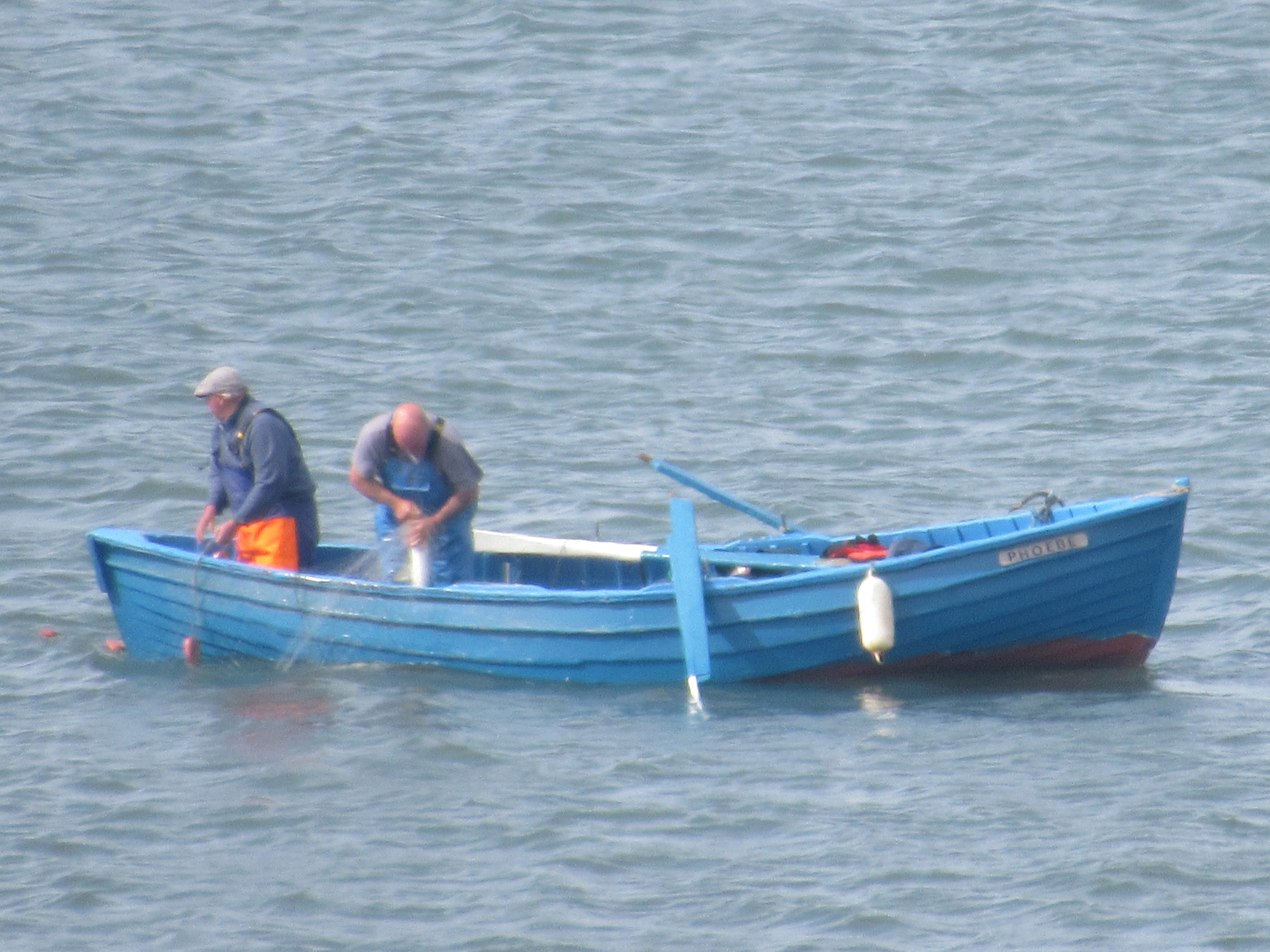 Pheobe Fishing Boat Taken in Whitby, North Yorkshire